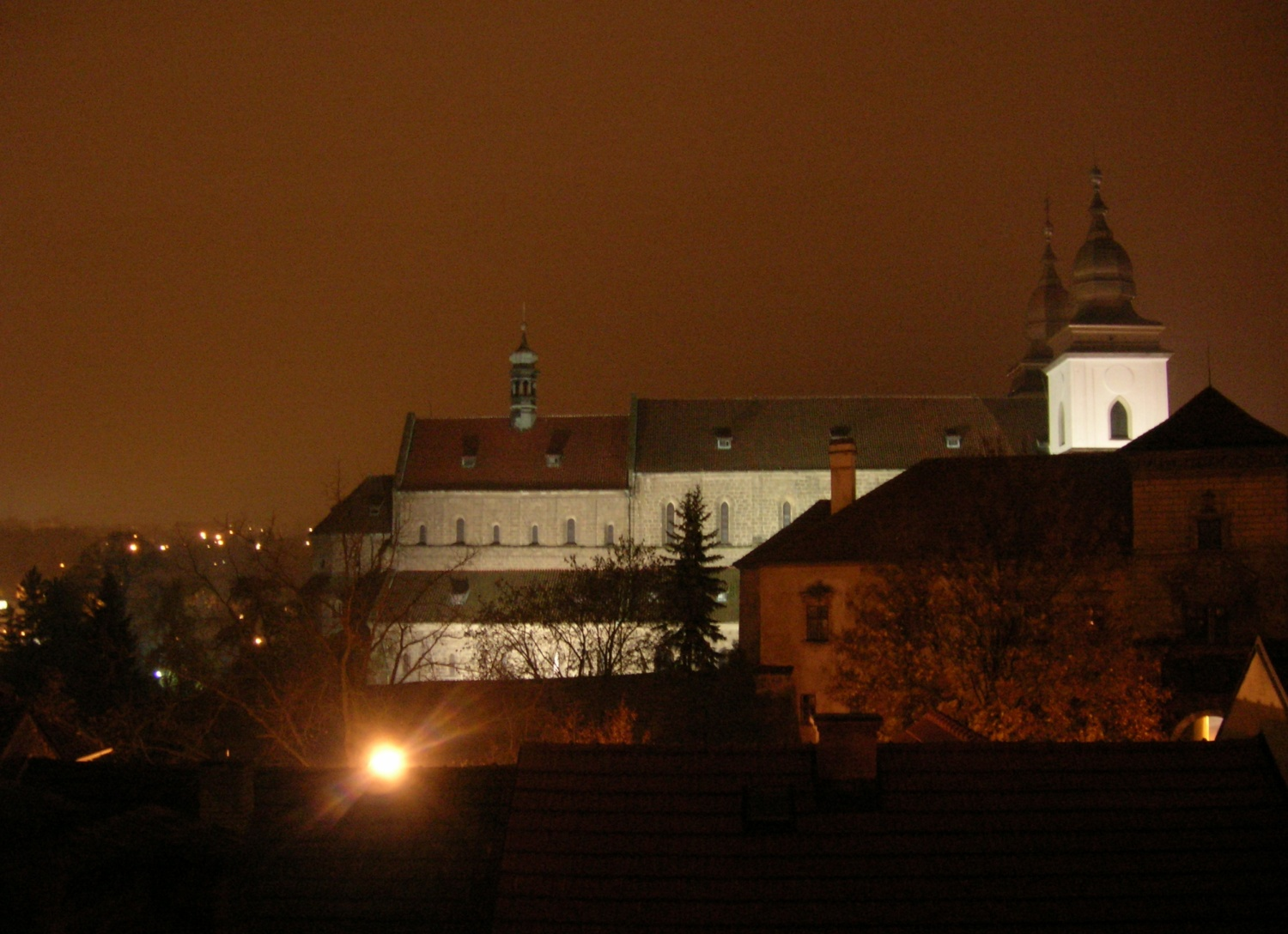 Třebíč-Podklášteří. St Procopius' Basilica.